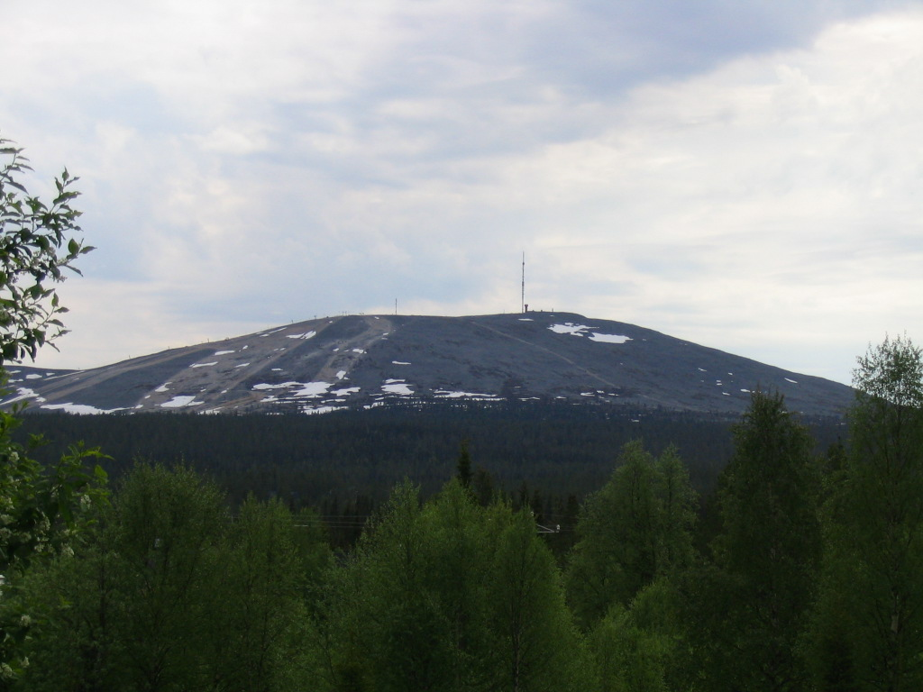 Fell Ylläs in Kolari, Finland